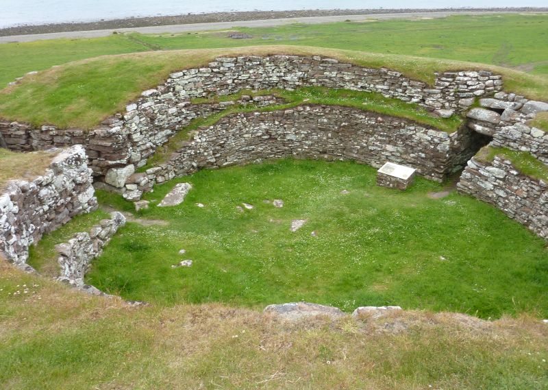 Carn Liath, a broch in Sutherland, Scotland